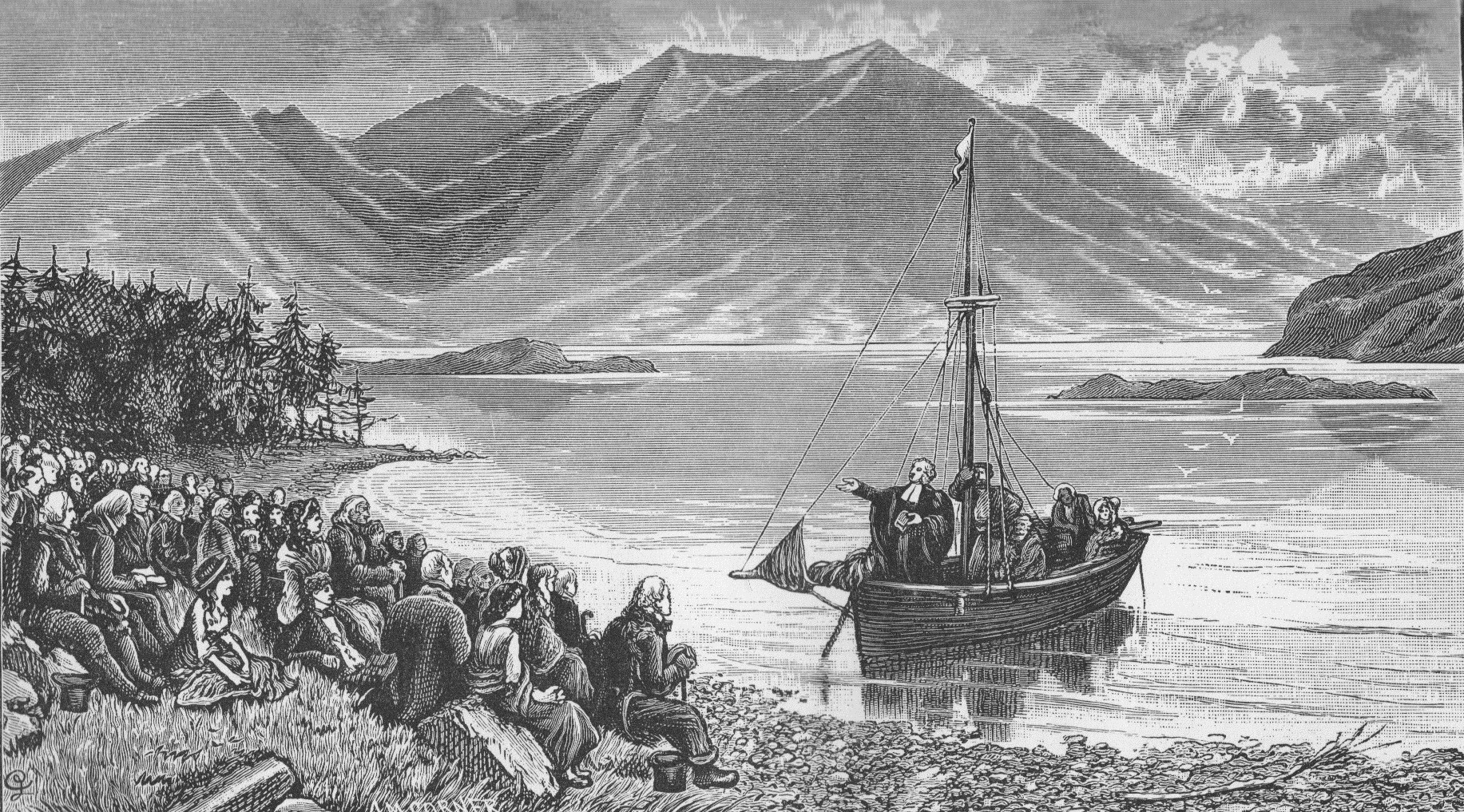 A minister of the Free Church of Scotland preaching the Gospel in the 1840s before the erection of its first church buildings.